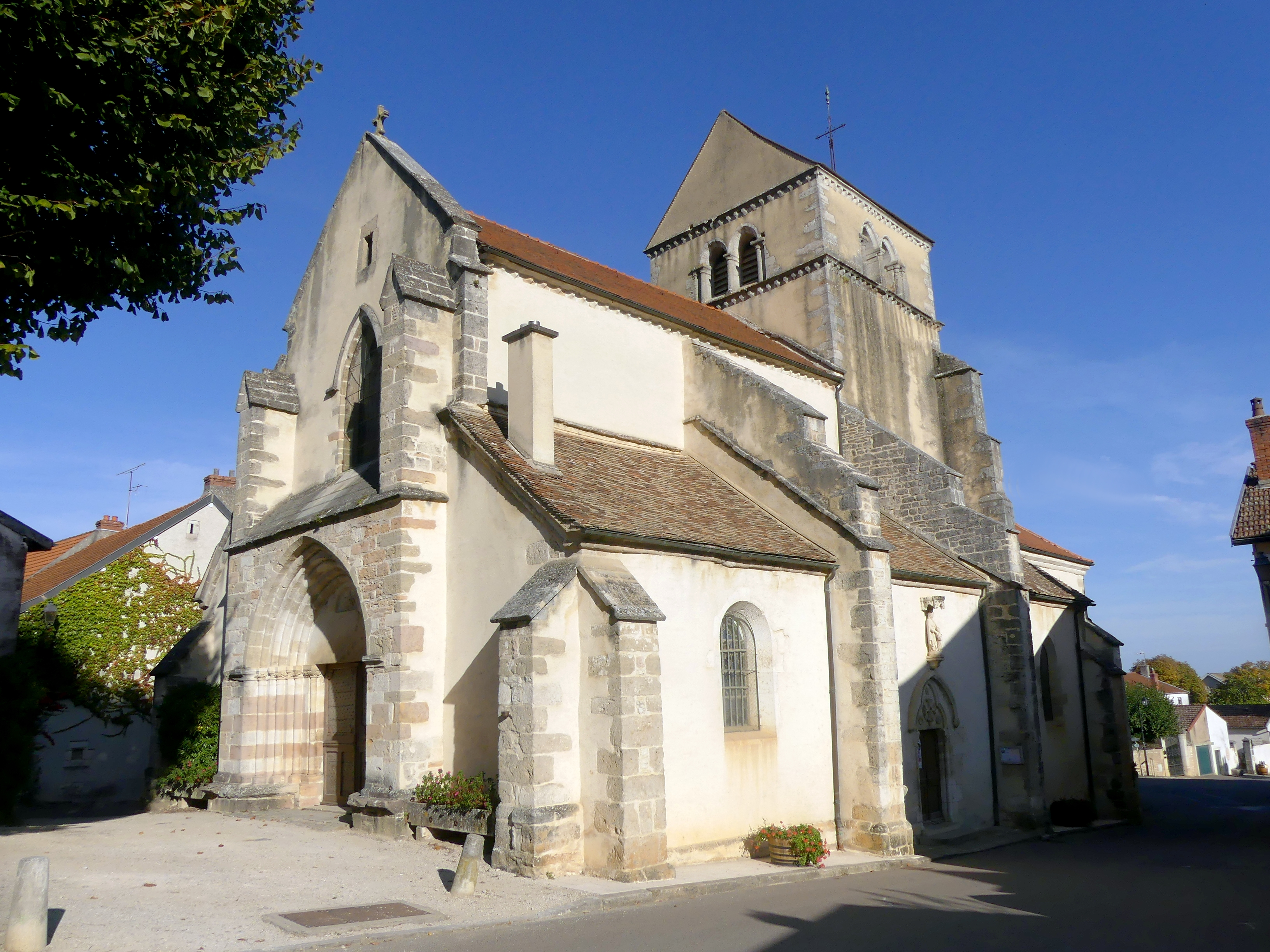 Sight of Saint-Cyr-et-Sainte-Julitte church of Volnay, in Côte-d'Or, France.